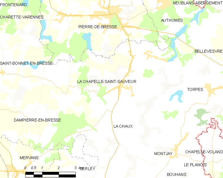 Map of French municipality